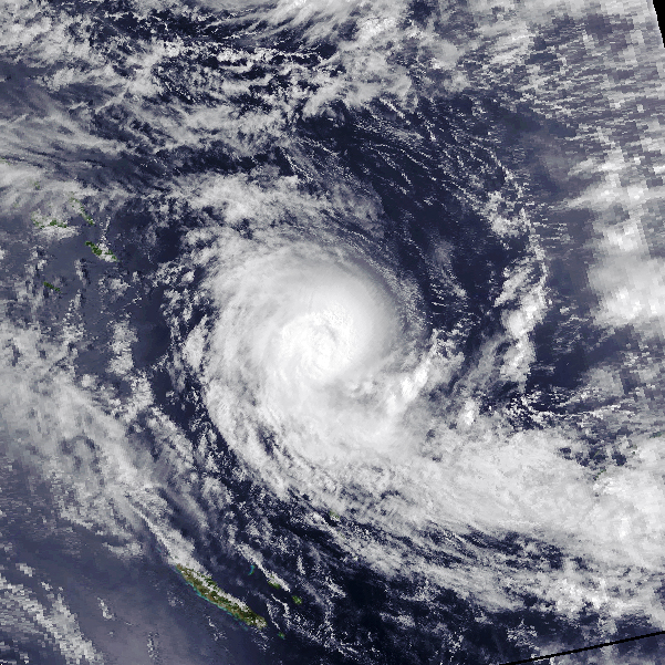 Tropical Cyclone Tia on November 18, 1991